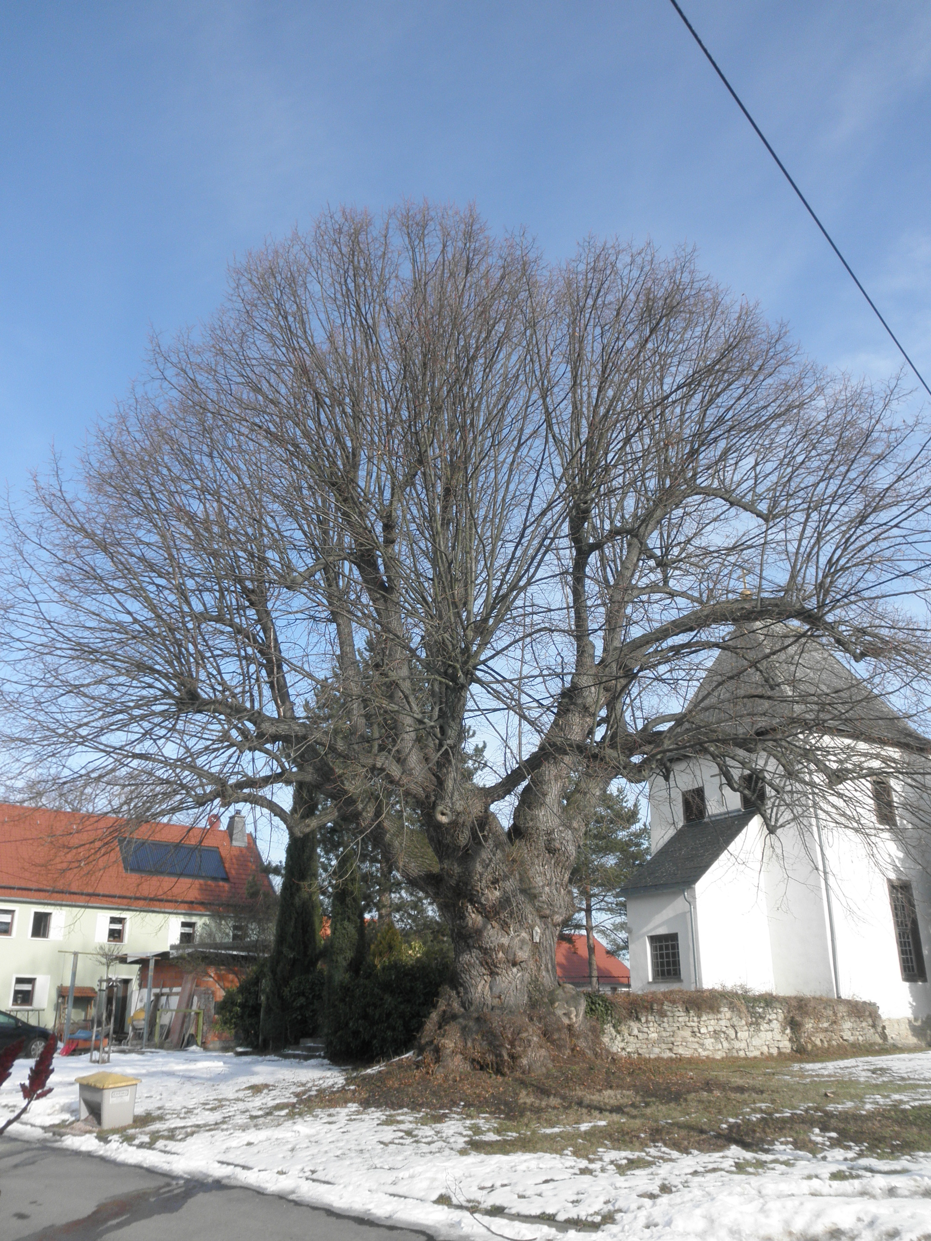 Old Limetree in Eichelborn (Mönchenholzhausen) in Thuringia